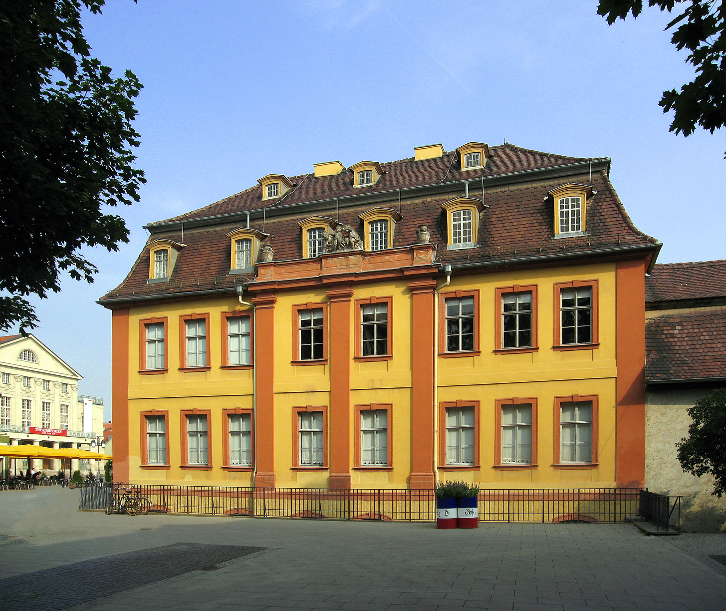 The Wittumspalais in Weimar. The resident of Anna Amalia, Duchess of Saxe-Weimar and Saxe-Eisenach.